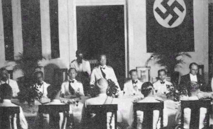 Thai diplomatic corp to the Reich is welcomed by Joseph Goebbels and Joachim von Ribbentrop at Schauspielhaus Berlin.